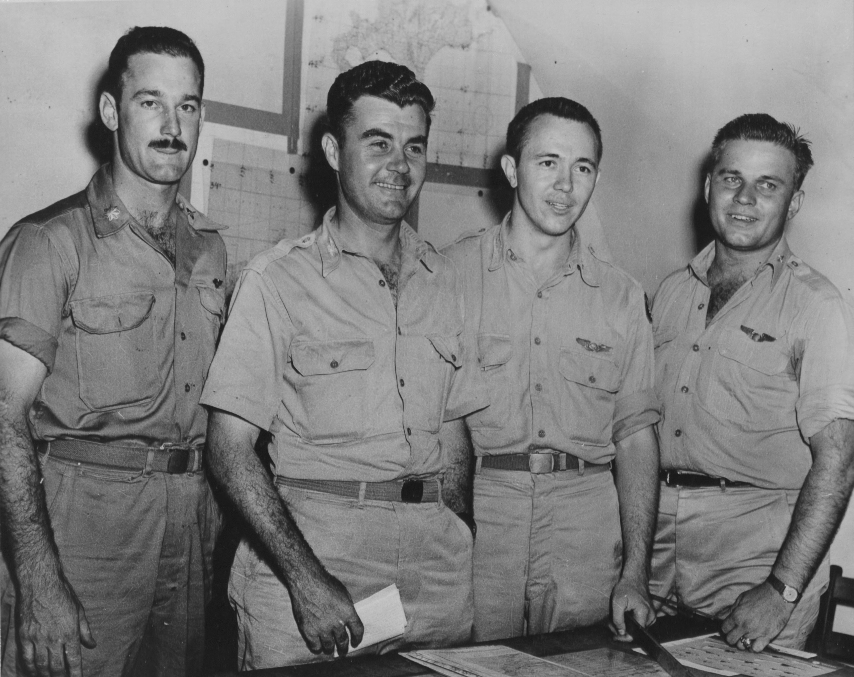 Left to right: Major Thomas W. Ferebee, Bombardier; Col. Paul W. Tibbets, Jr. Pilot; Capt. Theodore J. Van Kirk, Navigator; and Captain Robert Lewis, officer crew of the Enola Gay, the ship that made the historic flight over Hiroshima to drop the first atomic bomb .